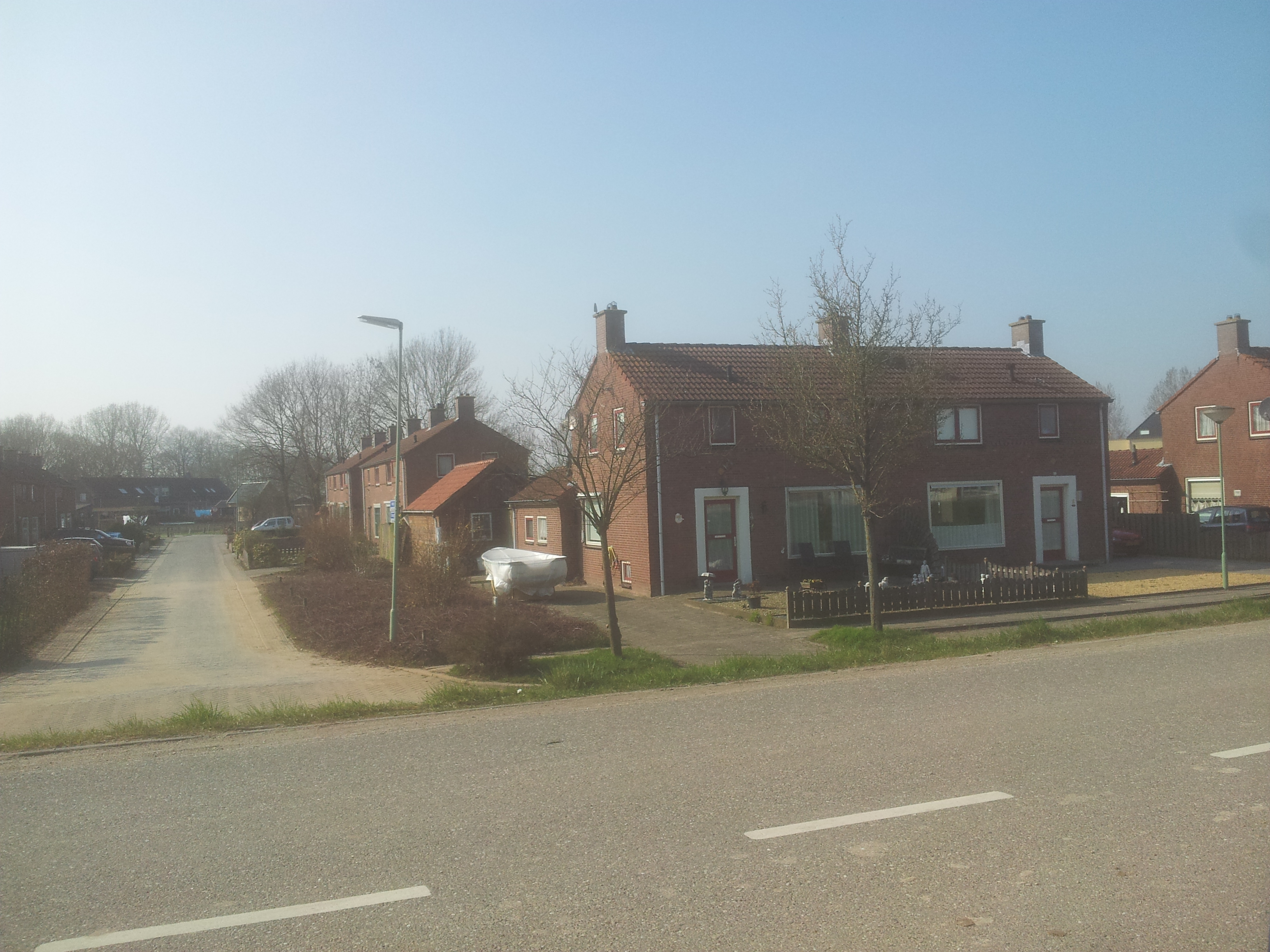 Township Steurgat, on the Steurgat Creek, just outside Werkendam, Netherlands